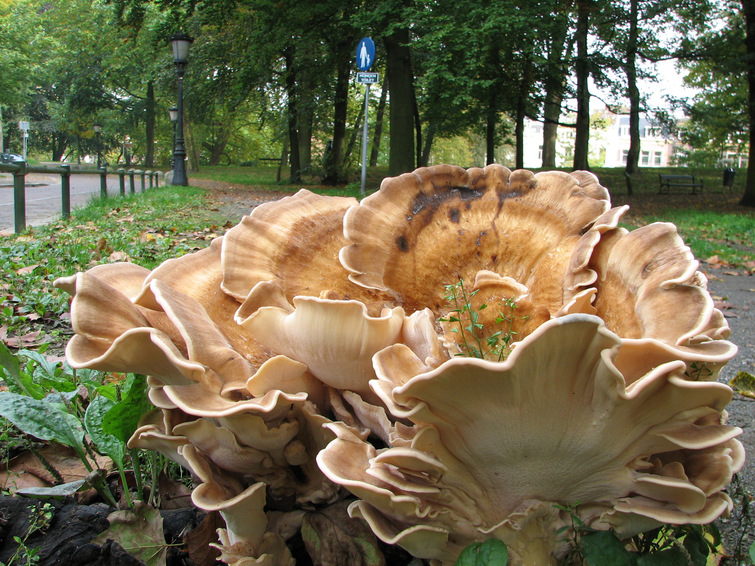 fungus